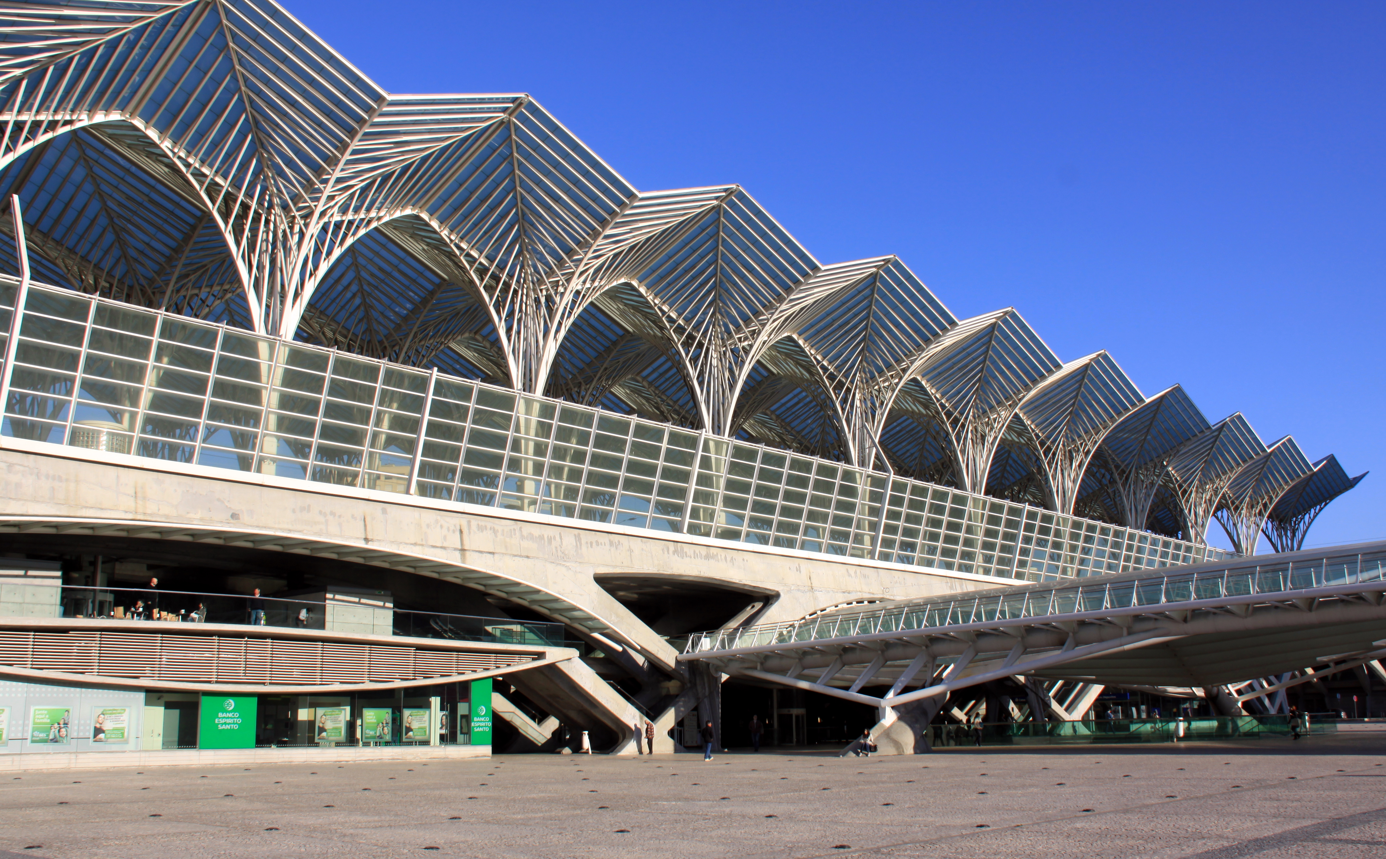 Gare do Oriente train station, Lisbon, Portugal